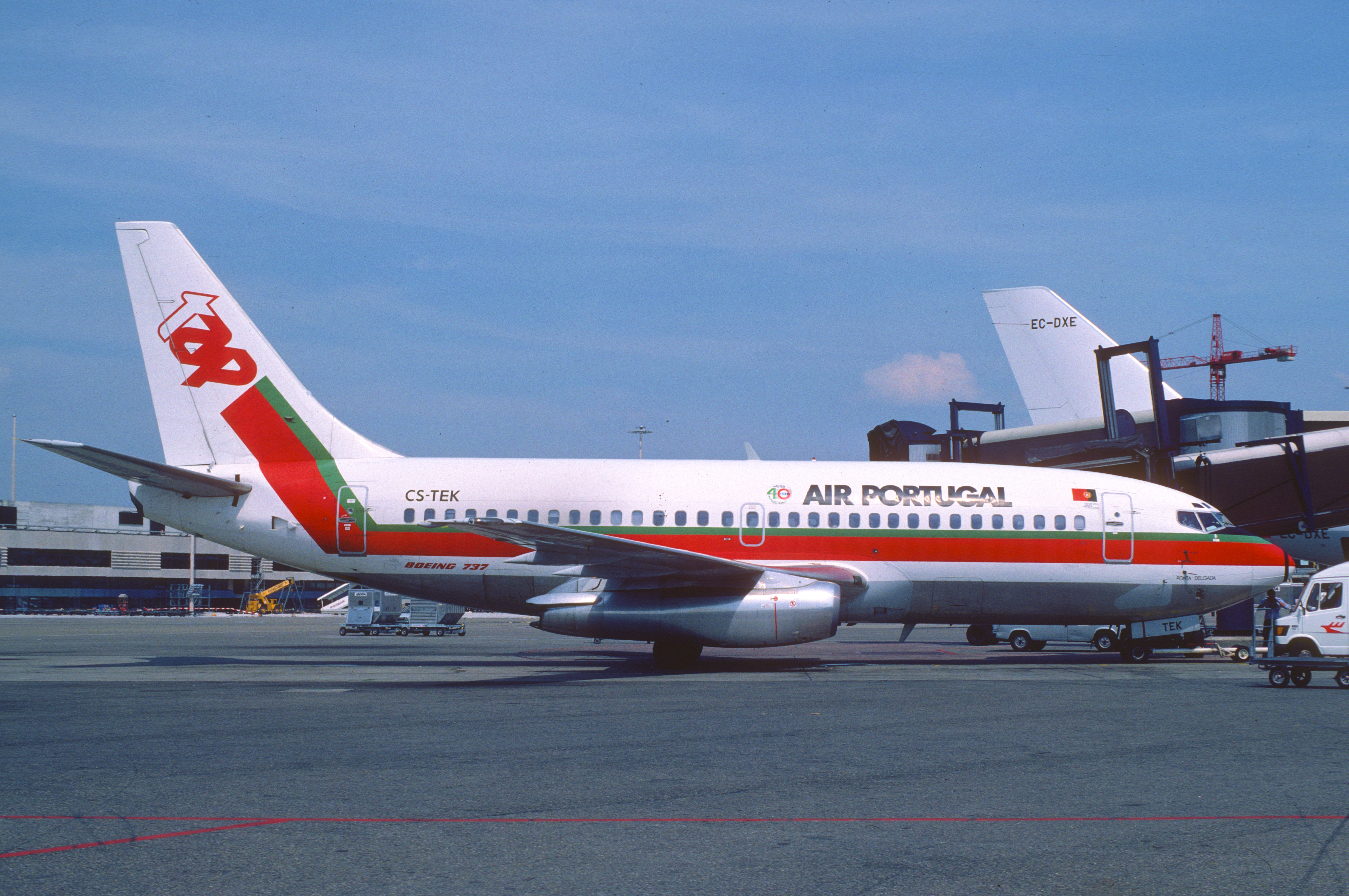 03/06/1983 TAP Air Portugal CS-TEK 18/01/1994 Damania Airways VT-PDD 20/04/1998 Peruvian Air Force FAP351 Plane crashed on May 5, 1998 on a Peruvian Air Force flight near Andoas, Peru. 74 of 87 people on board died in this accident.